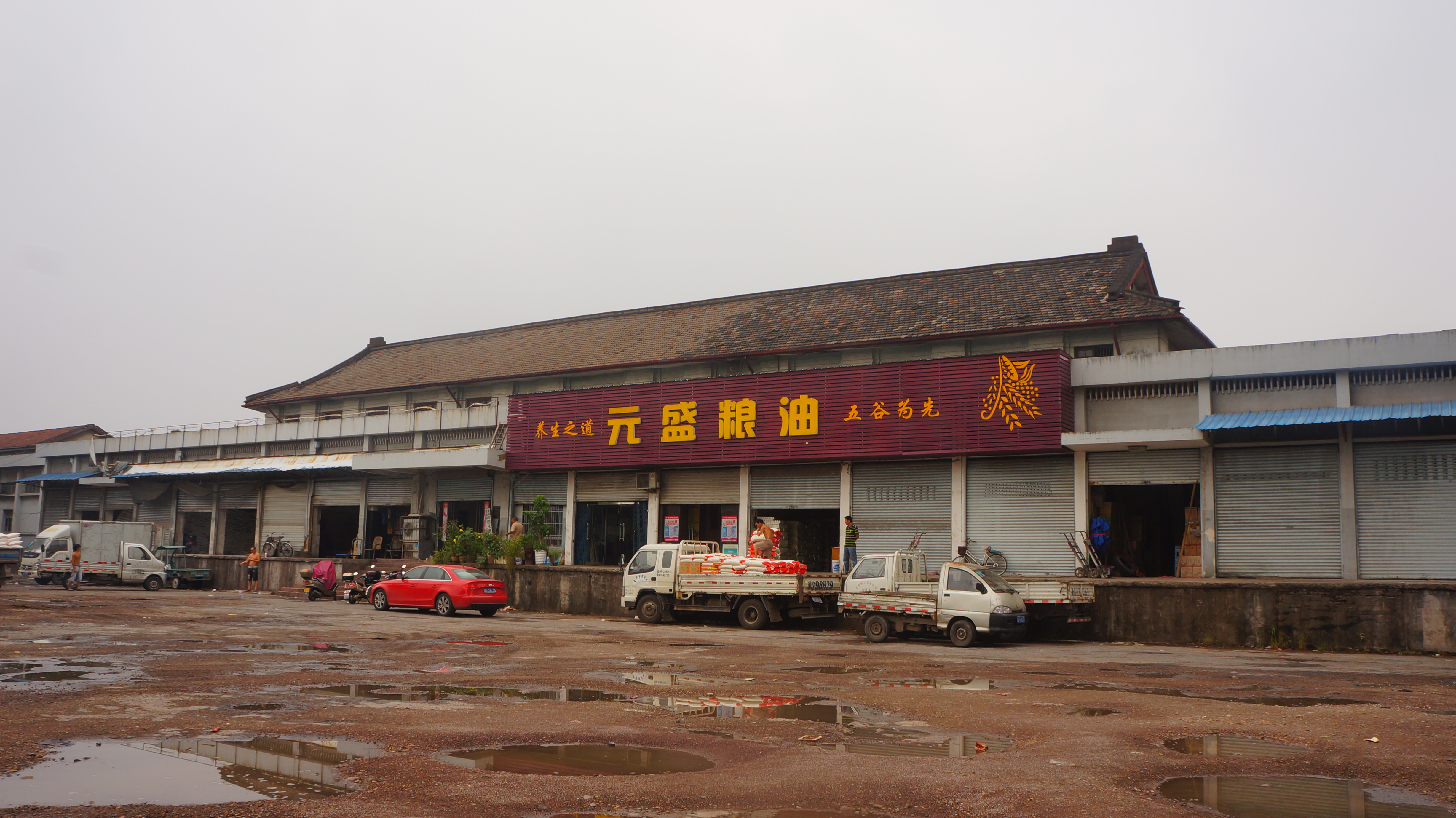 The facade of Old Jinhua Railway Station, it is used for warehouse now.